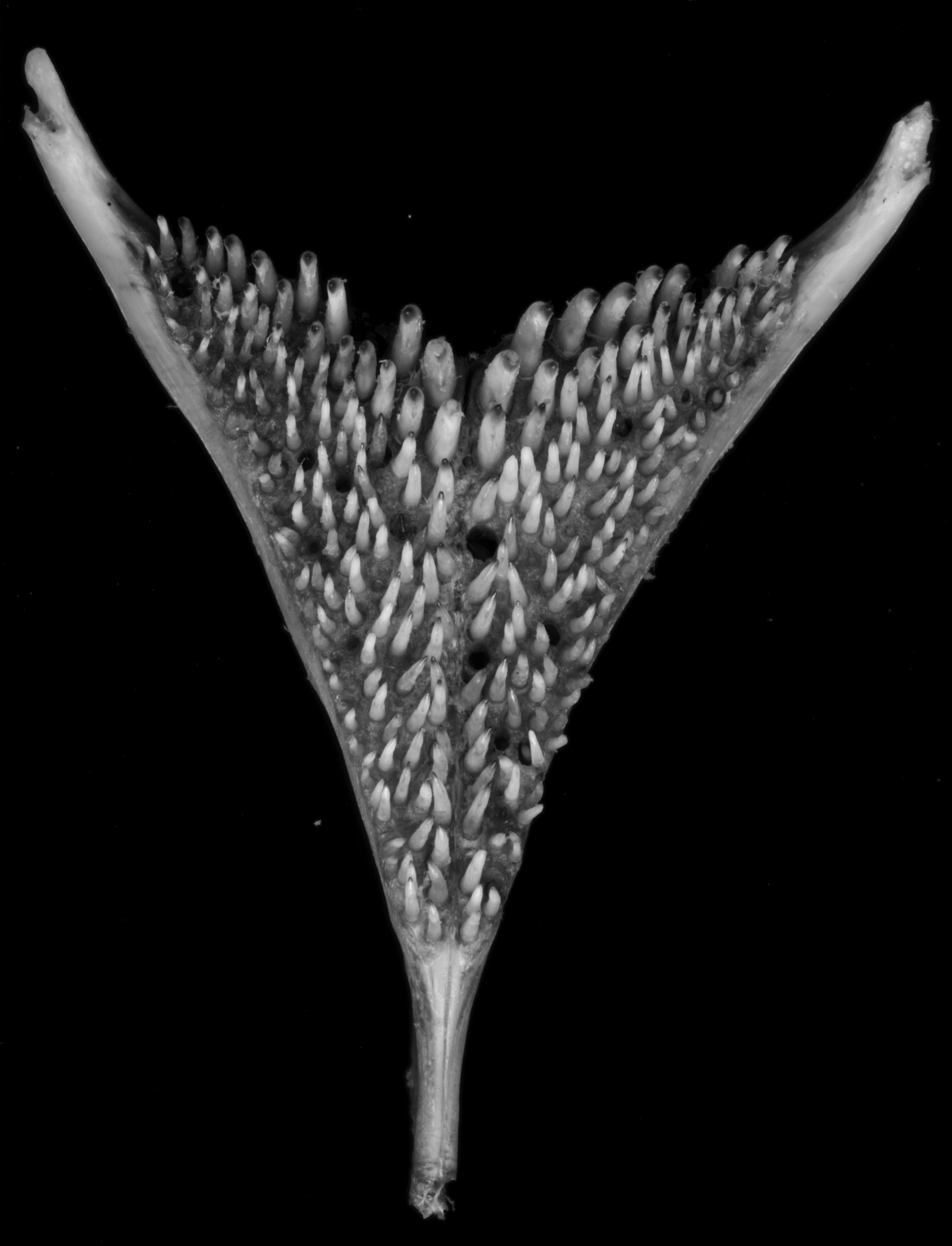 LPJ Boulengerochromis microlepis